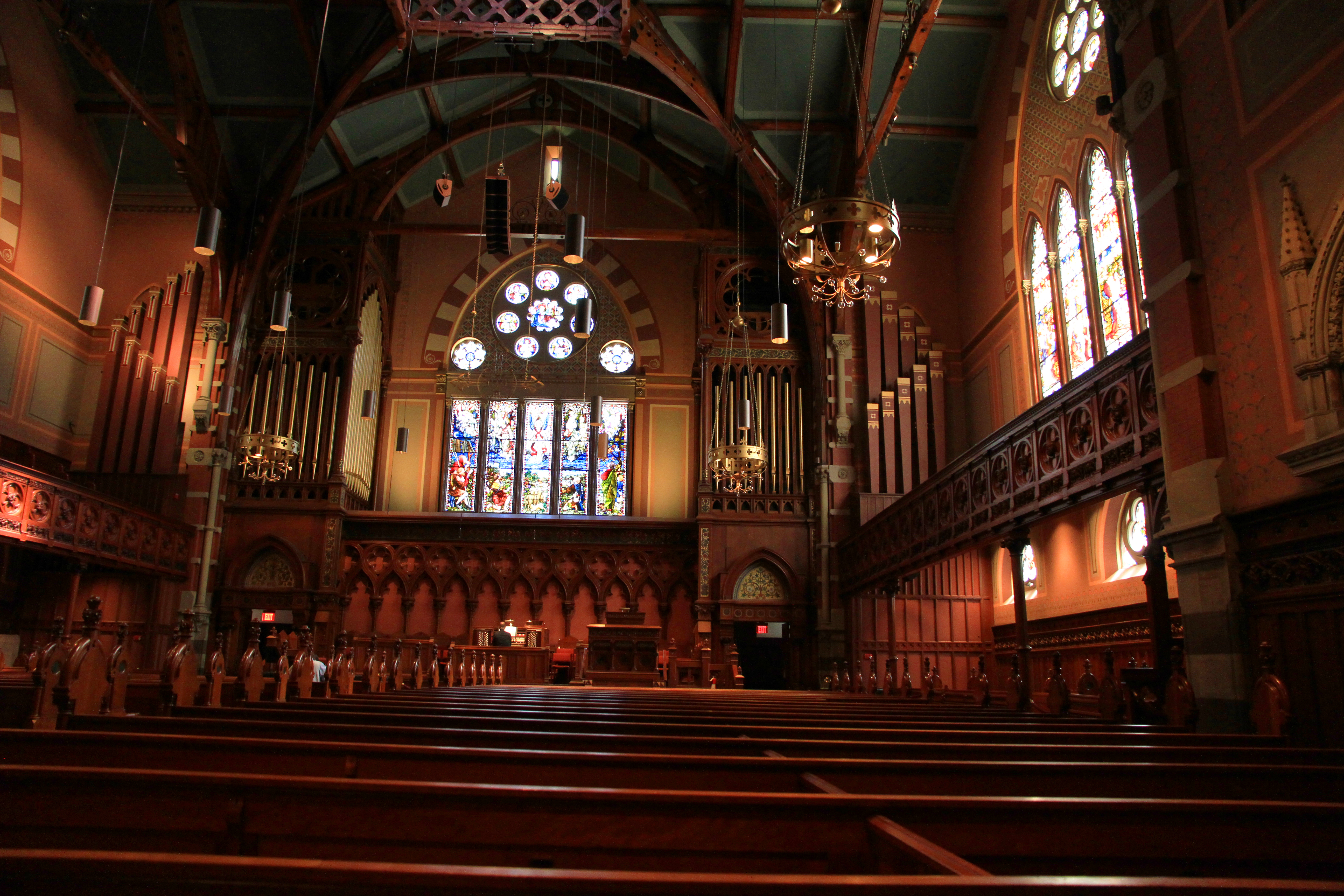 Old South Church, 2013